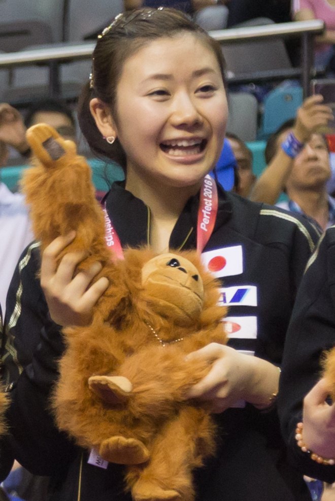 Ai Fukuhara